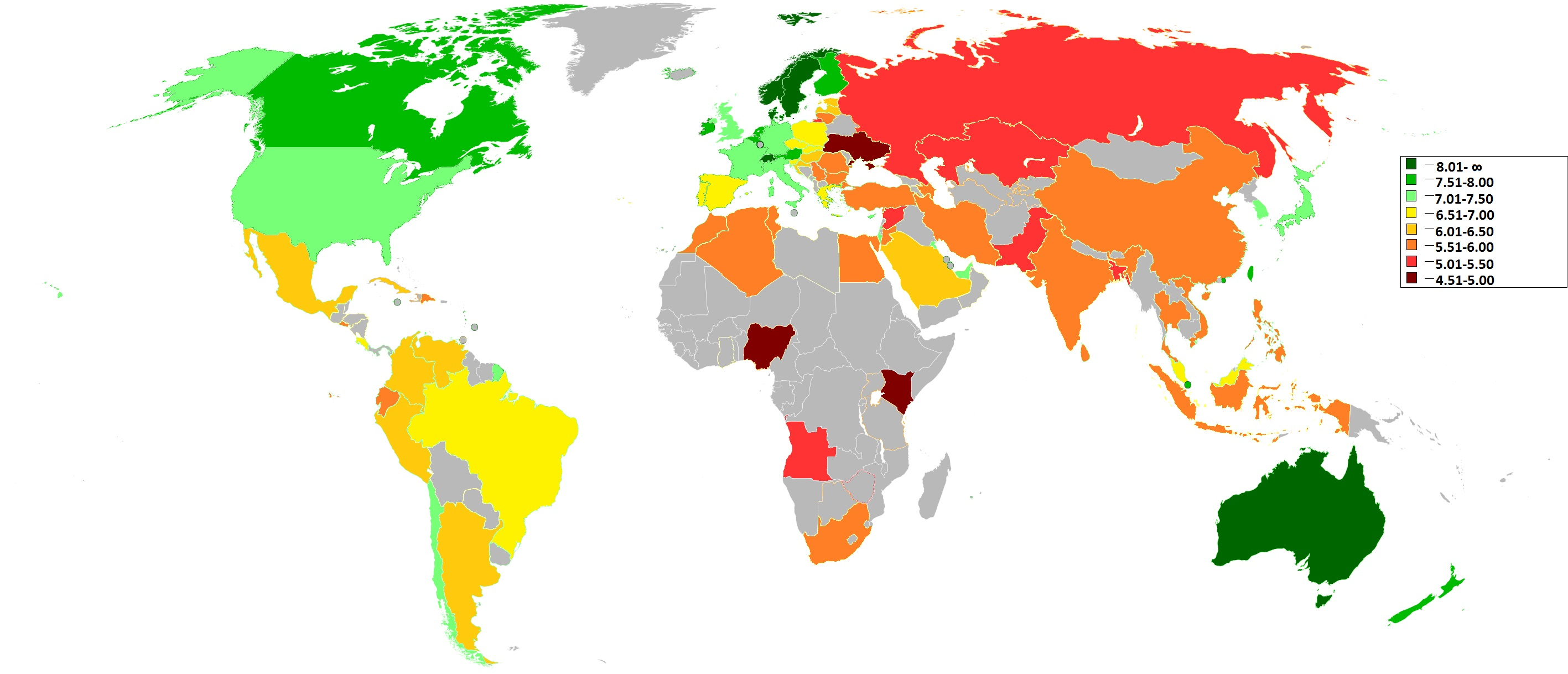 Where to be born index 2013 map